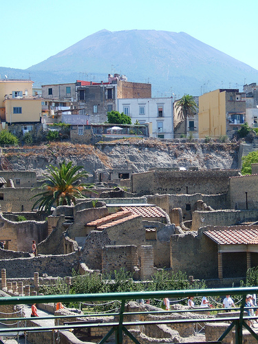 Italy, Region Campania - In the foreground the excavation of Herculaneum; in the background the Mount Vesuvius.